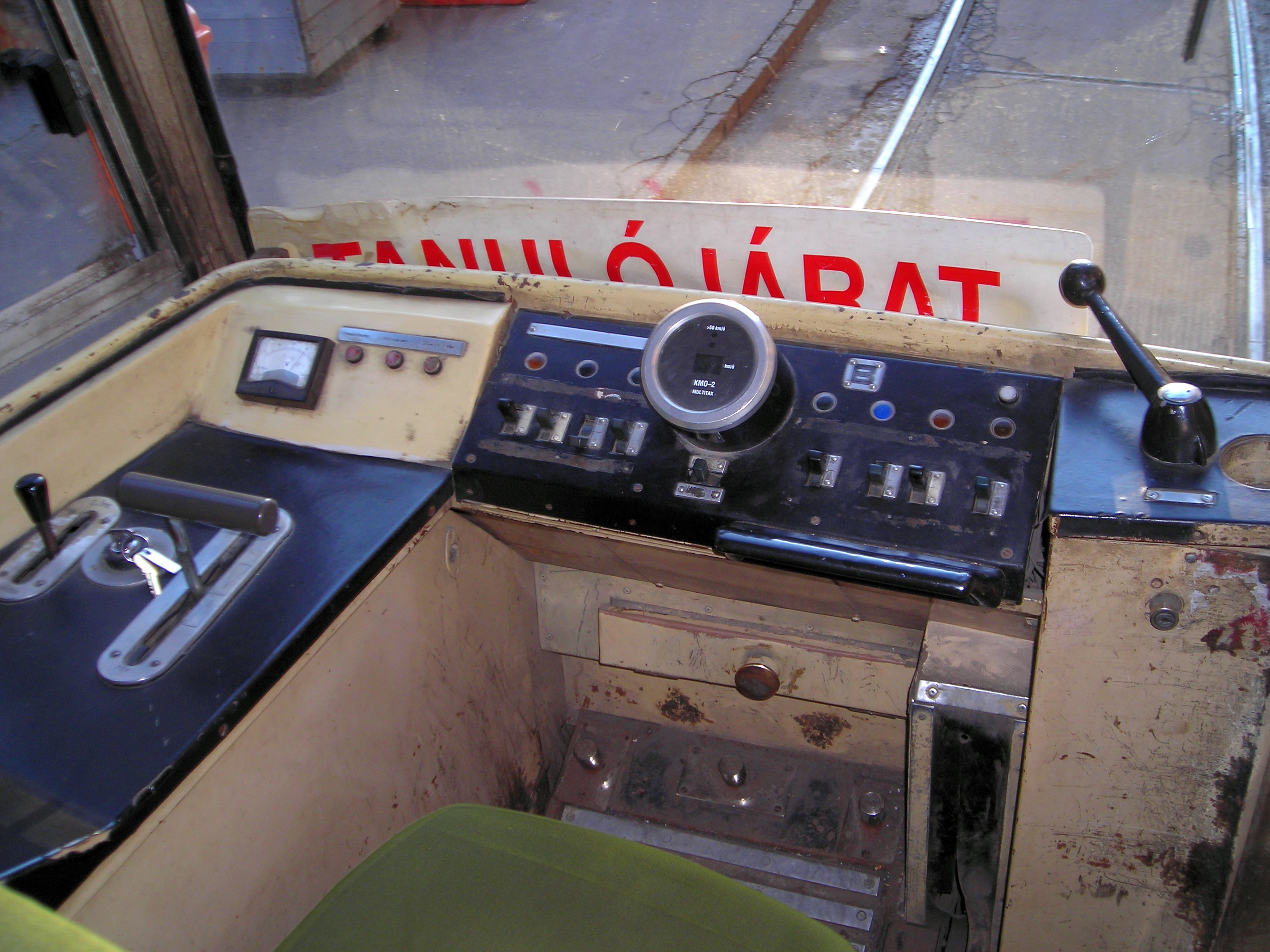 Drivers cab of the only Ganz KCSV5 tram ever built (No. 1303), Budapest